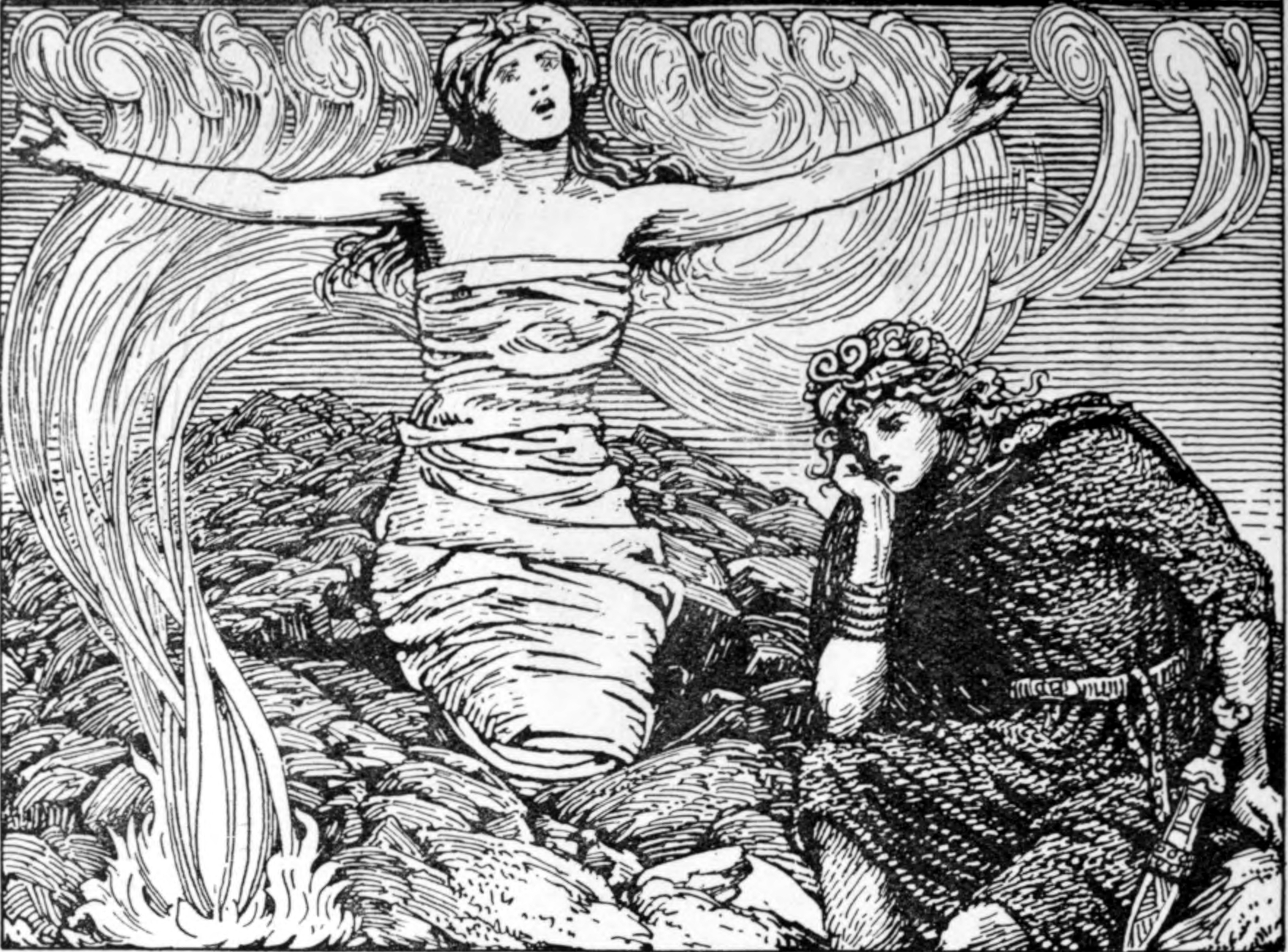 The dead Gróa recites her incantation before her son Svipdagr. The list of illustrations in the front matter of the book gives this one the title Groa's Incantation.